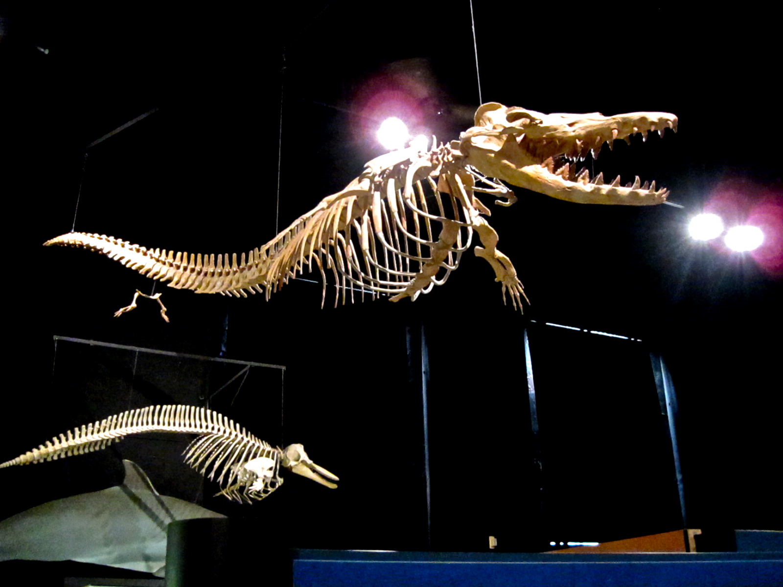 Virtually complete skeleton of Dorudon atrox excavated in Wadi Hitan, Egypt. by team led by Philip Gingerich. For more information see